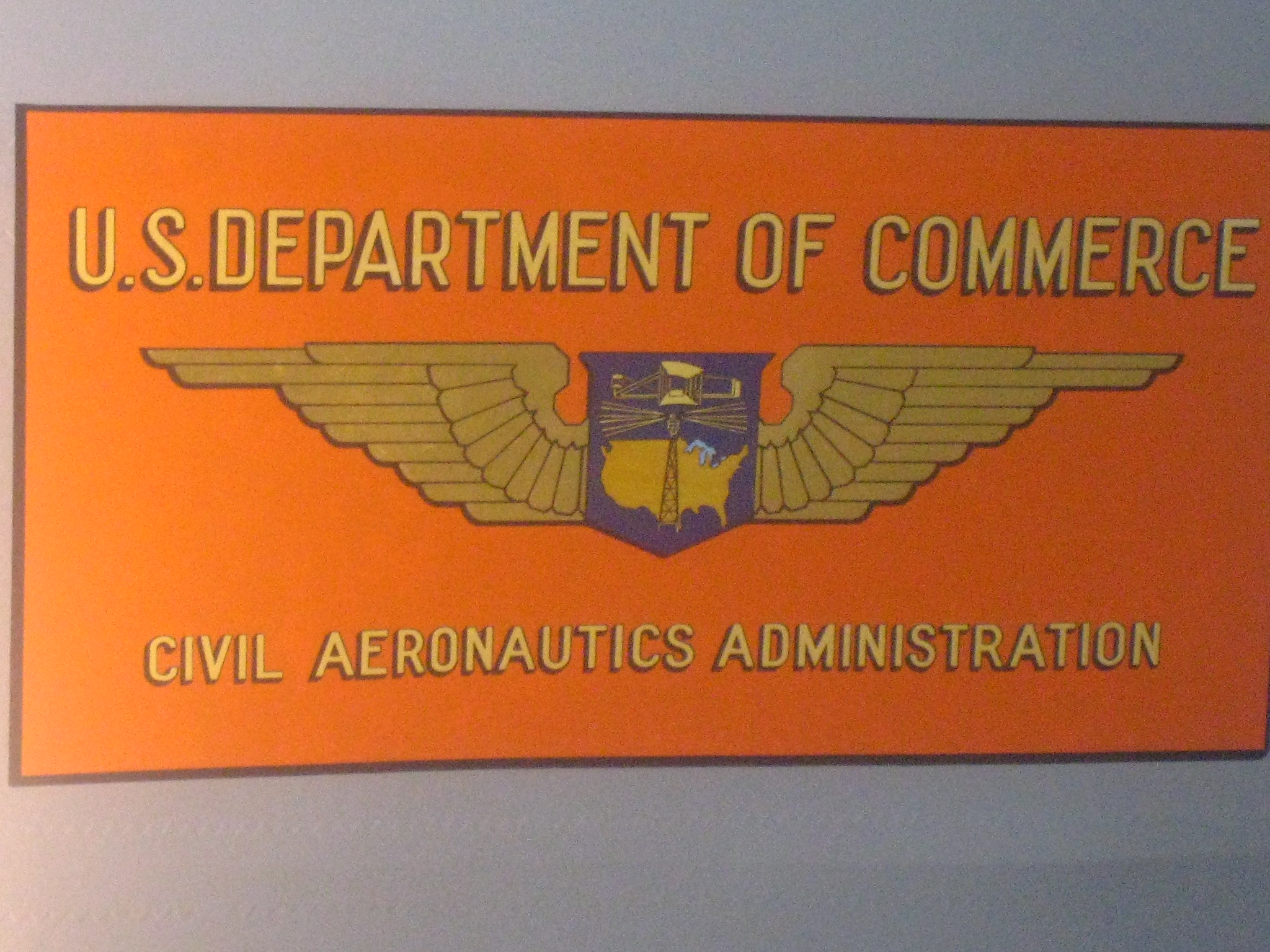 Dept of Commerce logo on aircraft